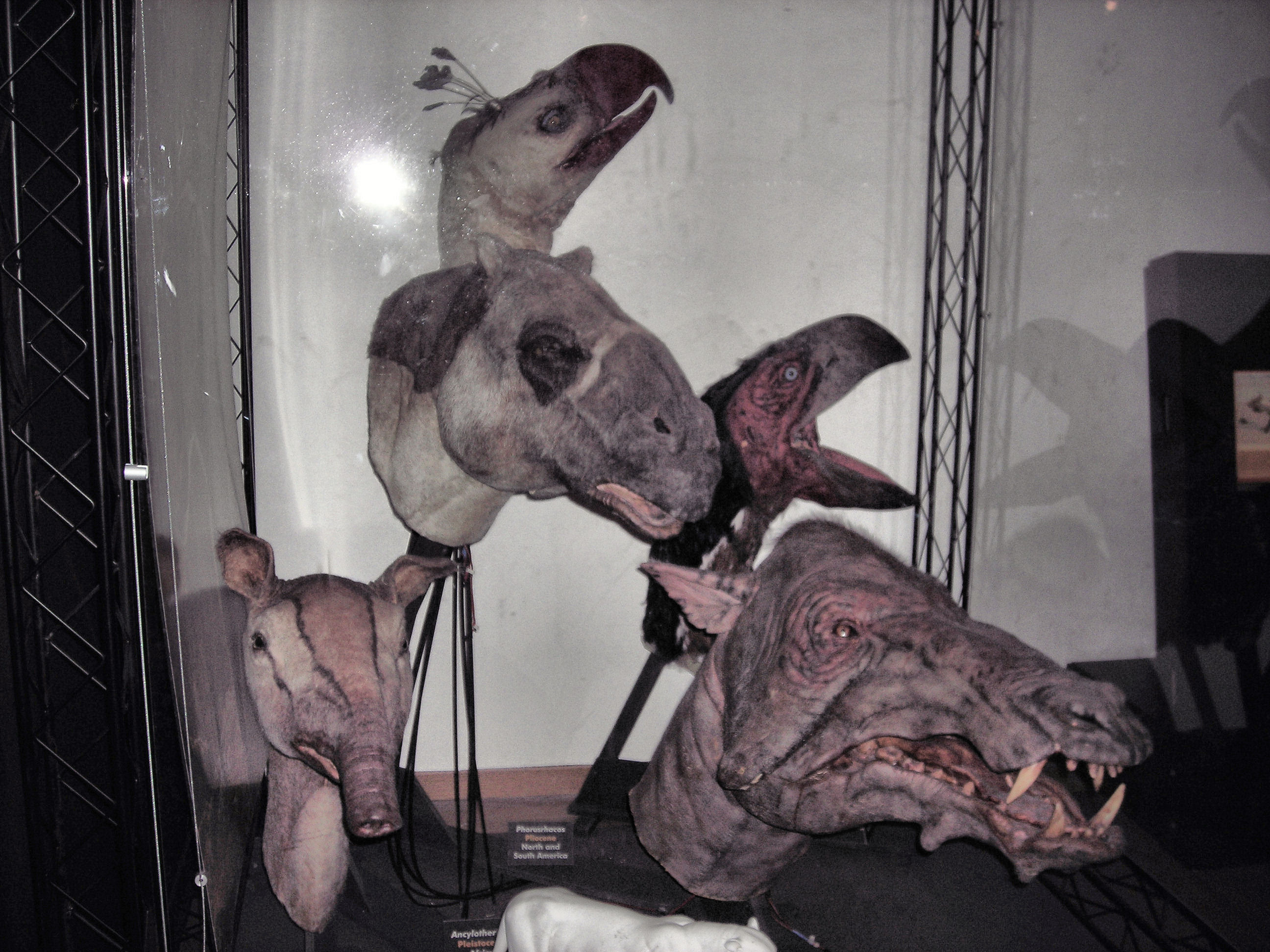 Walk With Beasts exhibition, Horniman Musem, London.